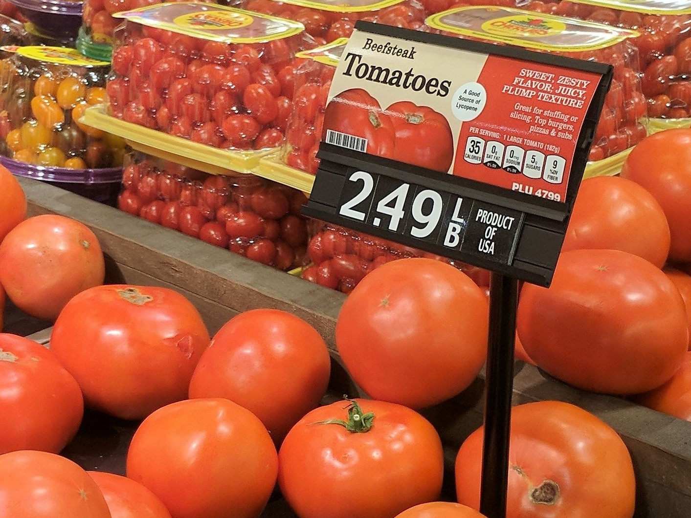 A price sign for tomatoes at a Shoprite supermarket in New Jersey, US.